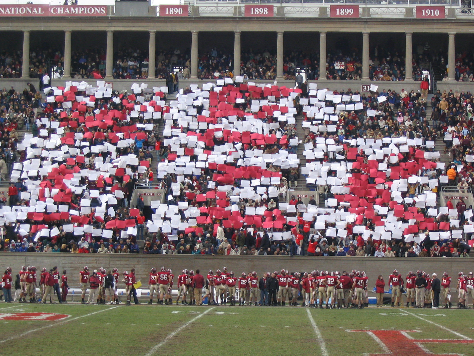 The scene of the "We Suck" placard prank during the 2004 Harvard-Yale annual football game. In this zoomed-in photo one can see the prank organized rally and film the crowd.